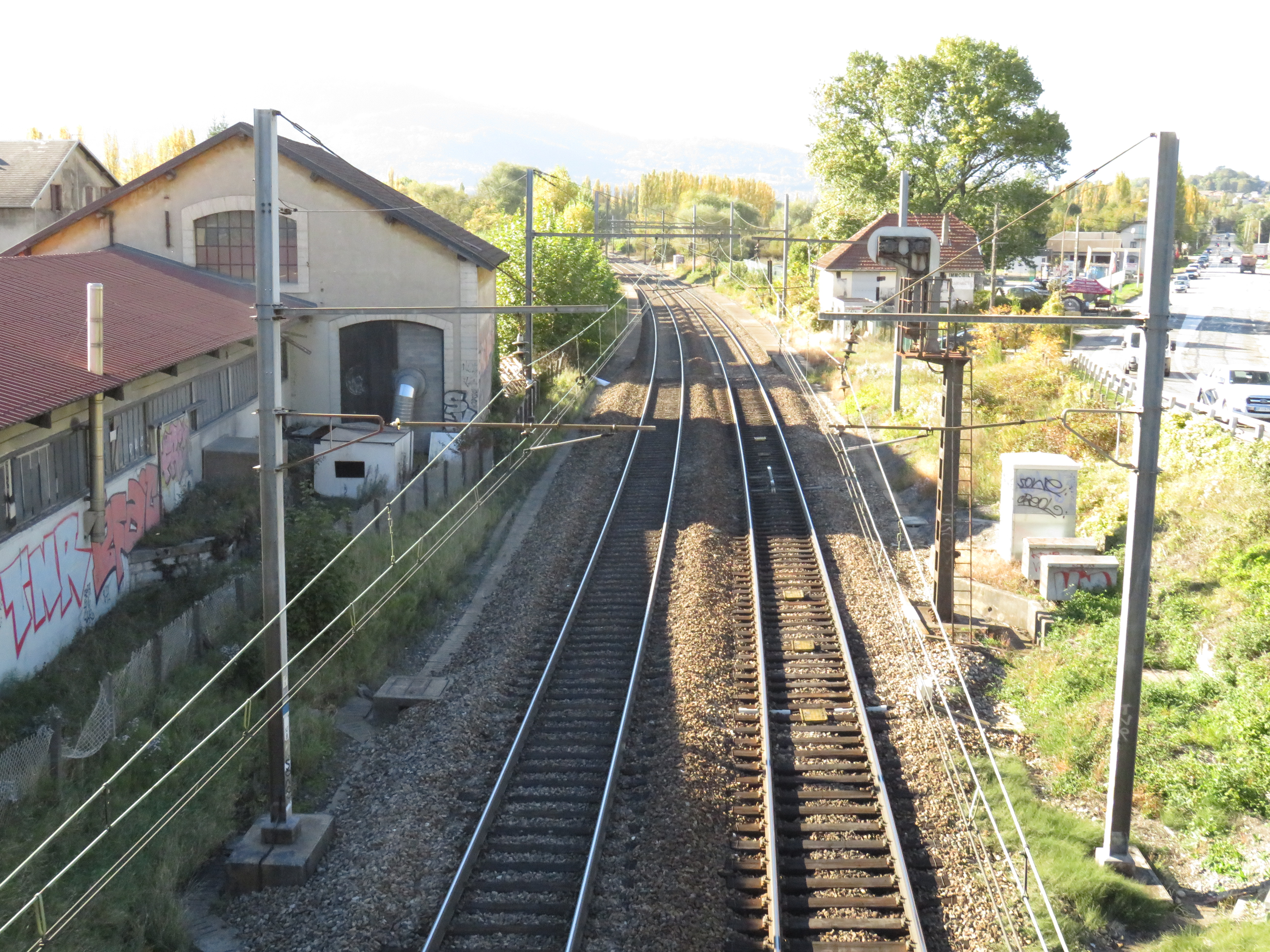 The tracks in the former train station of Chignin - Les Marches (Chignin, France) on October 11, 2017.